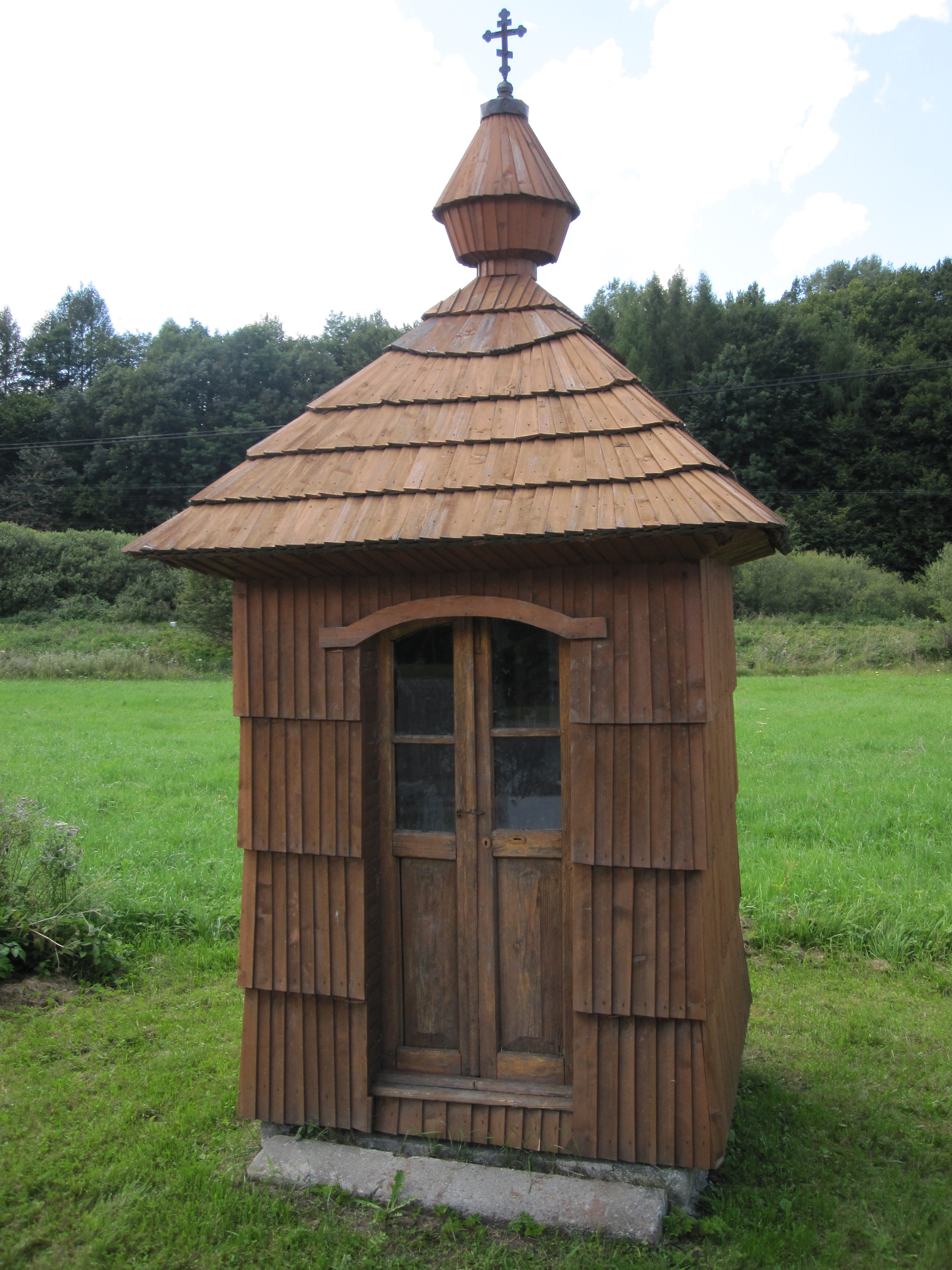 Wooden chapel in Szczawne village